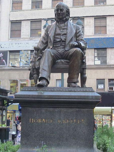 Horace Greeley statue in New York City